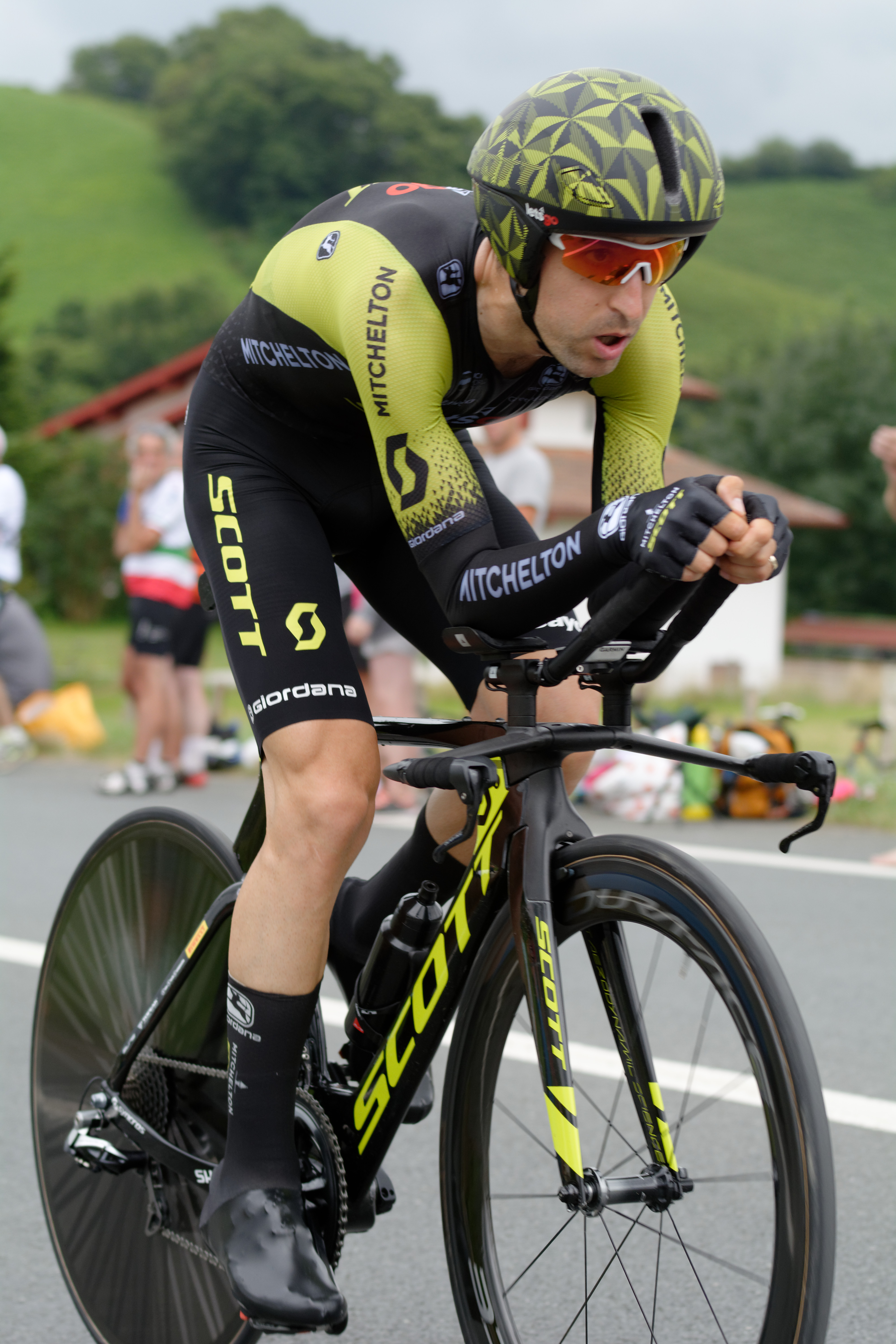 2018 Tour de France